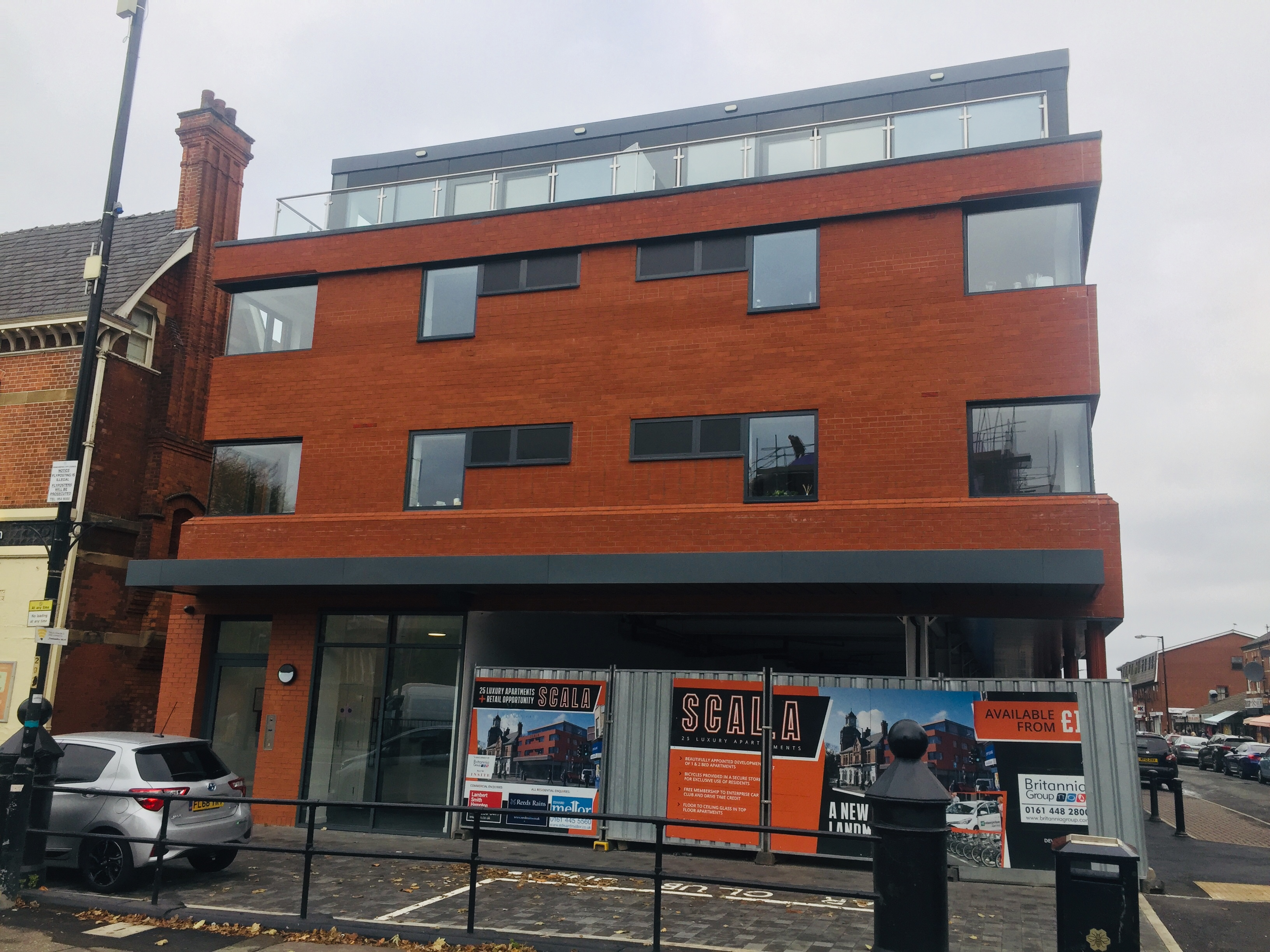 Scala Apartments, built on the site of the former Scala Cinema in 2018 in Withington, Manchester